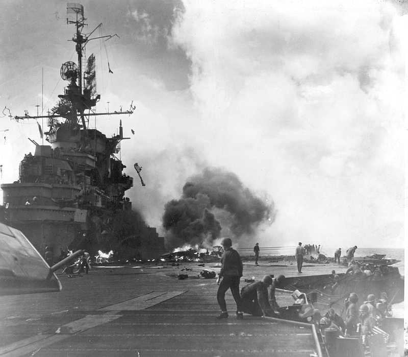 Two 500 lb. bombs exploded on flight deck on 21 January 1945.